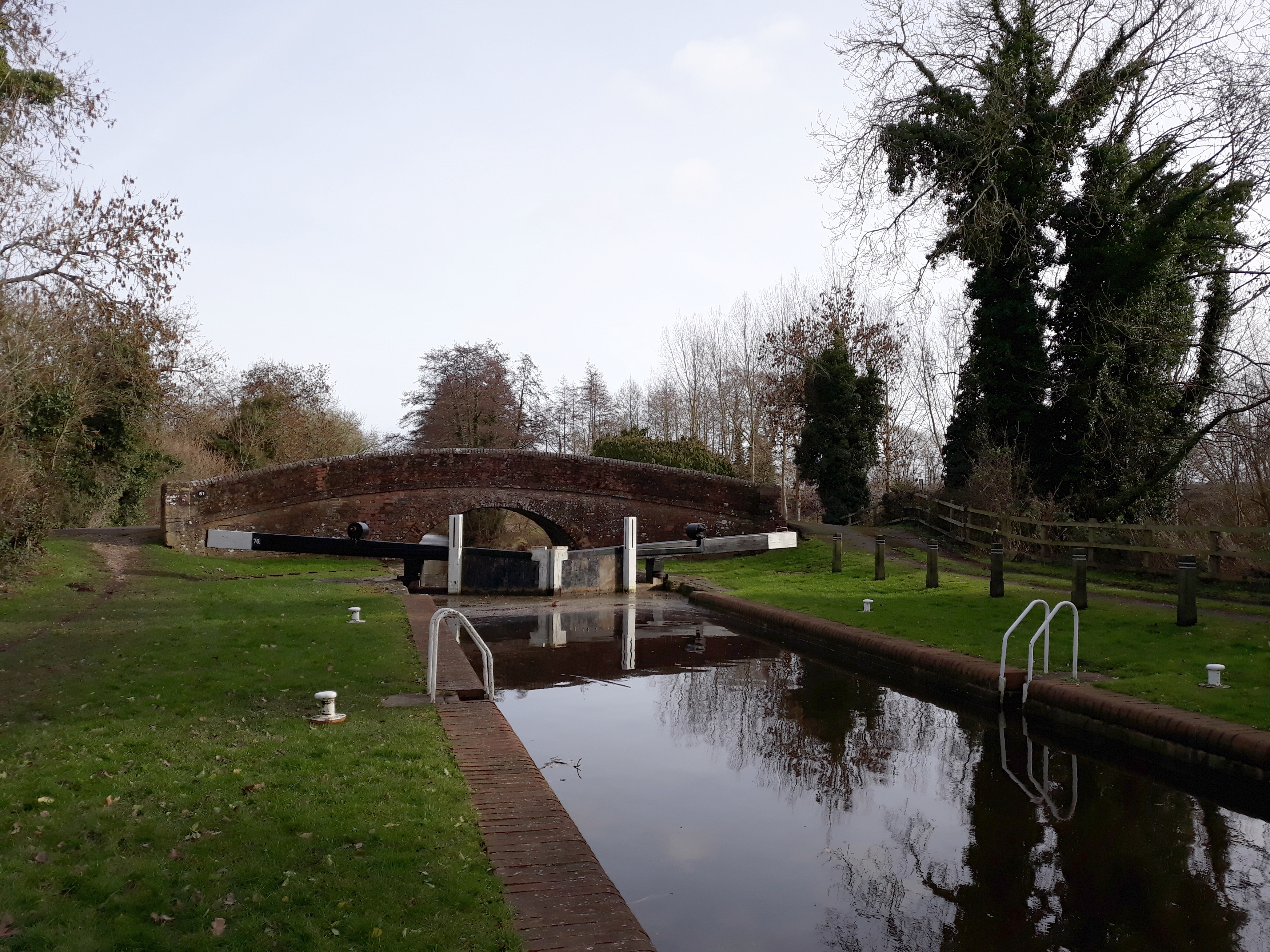 Wire Lock on the Kennet and Avon Canal, half way between Hungerford and Kintbury. Berkshire, England.